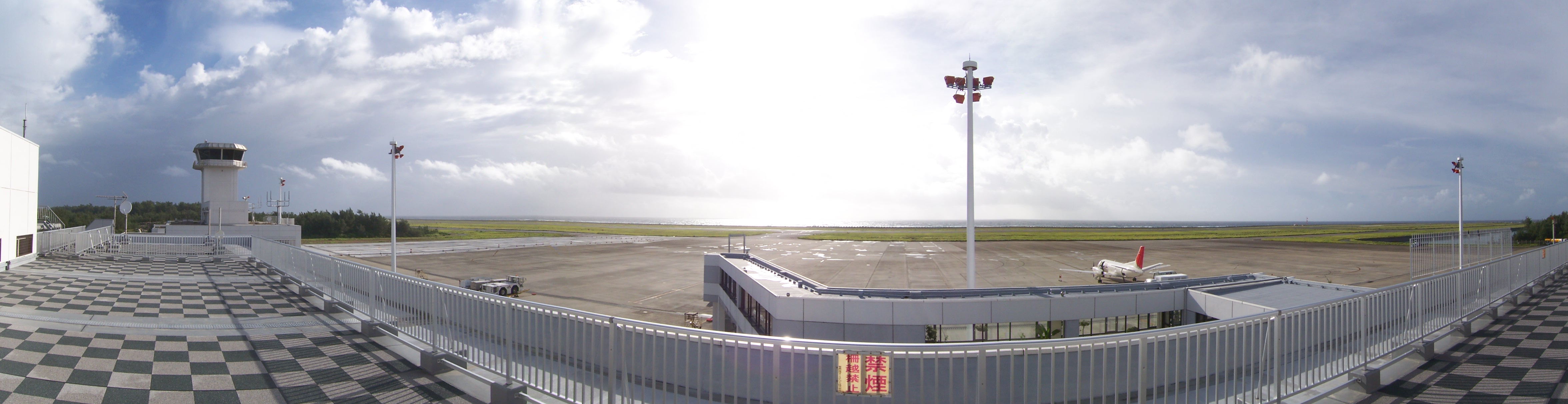 Amami Airport in Wano, Kasari-cho, Amami-shi, Kagoshima-ken, Japan. Composite panoramic photo.